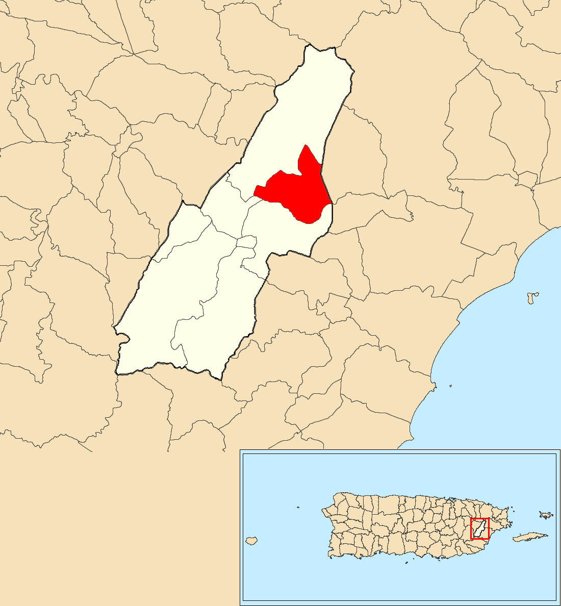 Boquerón, Las Piedras, Puerto Rico locator map